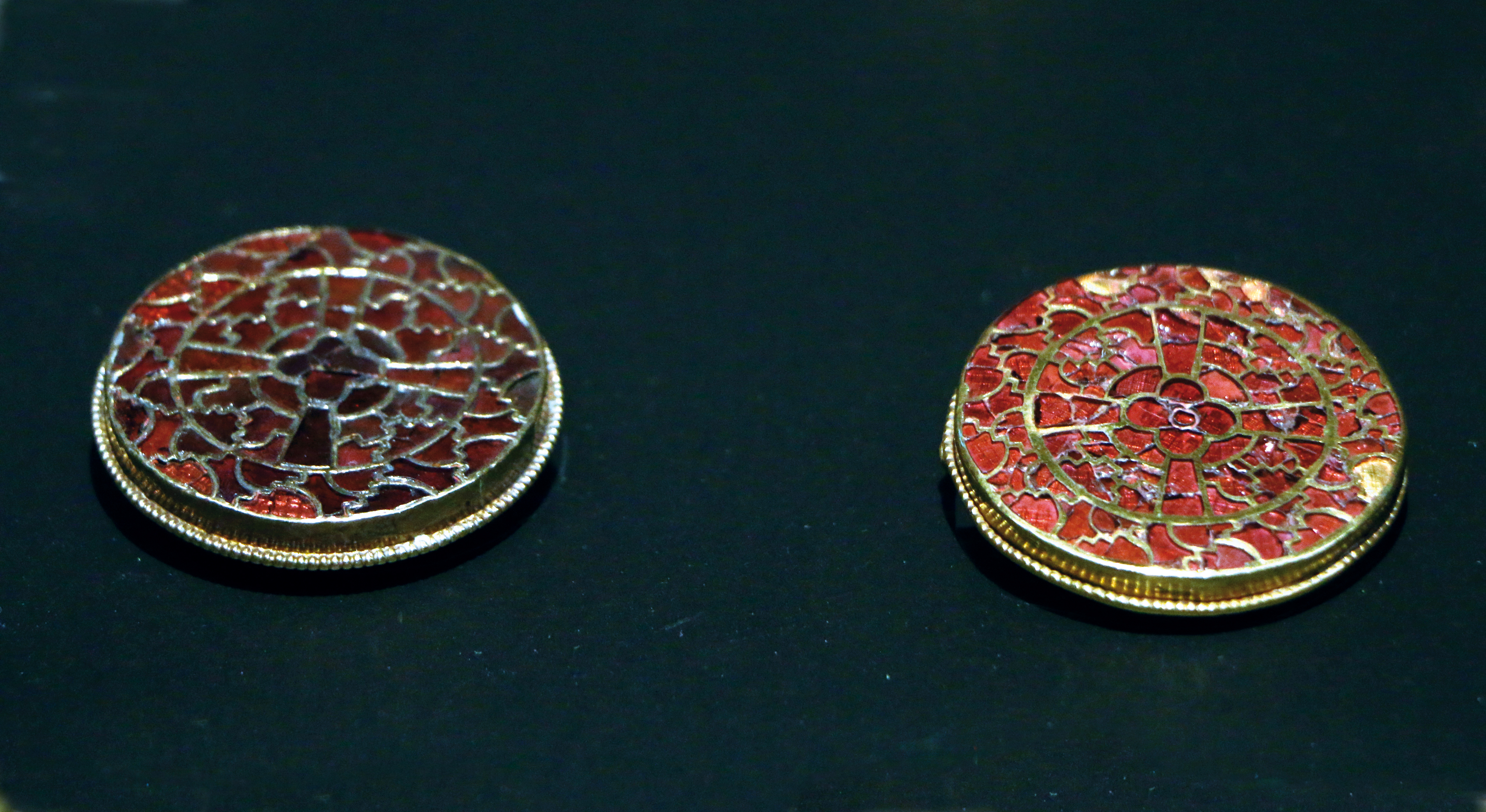 Two brooch of queen Aregund found in her grave - 6th century made of gold and garnet - Usually in the Museum of National Archeology in Saint-Germain-en-Laye near Paris